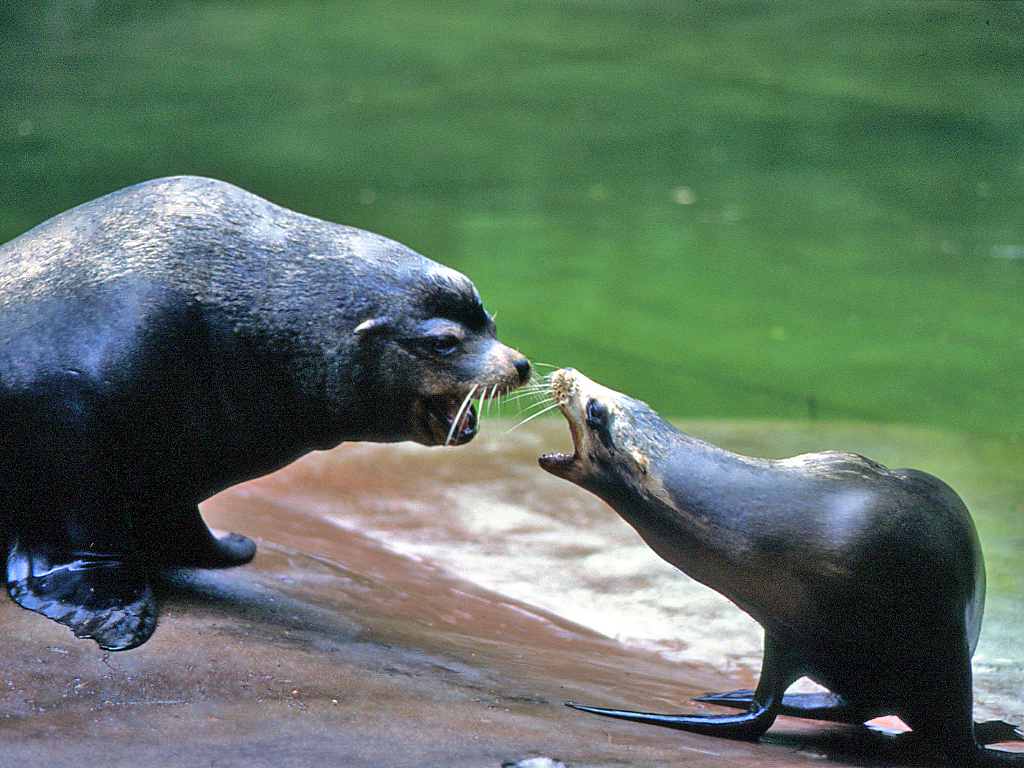 California sea lion